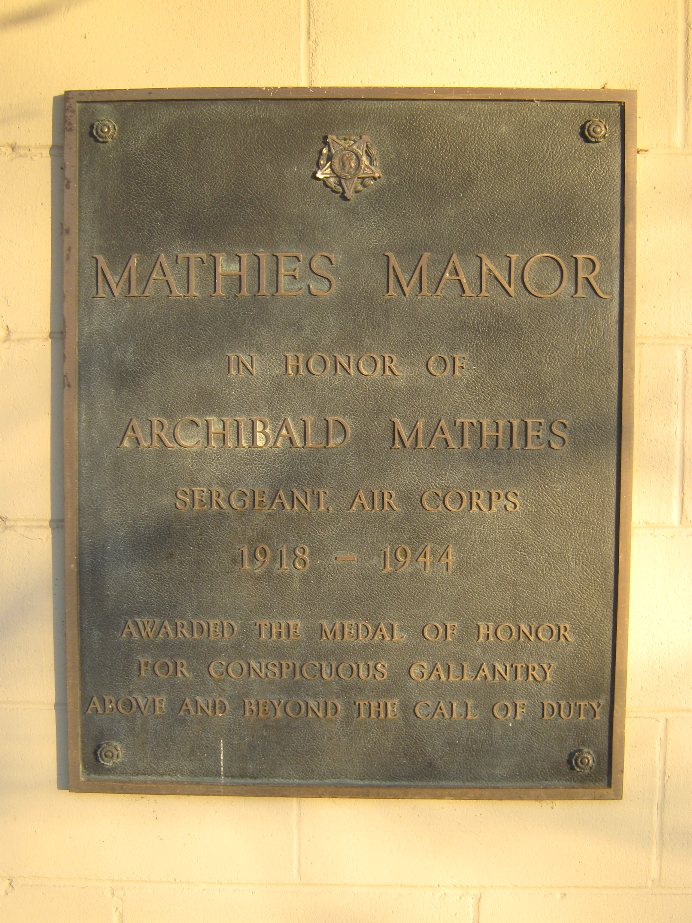 Plaque at Mathies Manor, Building 3621, Bolling Air Force Base, Washington, D.C. This building is located near the intersection of Angell Street and Luke Avenue. Mathies Manor is named after Sergeant Archibald Mathies, awarded the Medal of Honor during World War II.